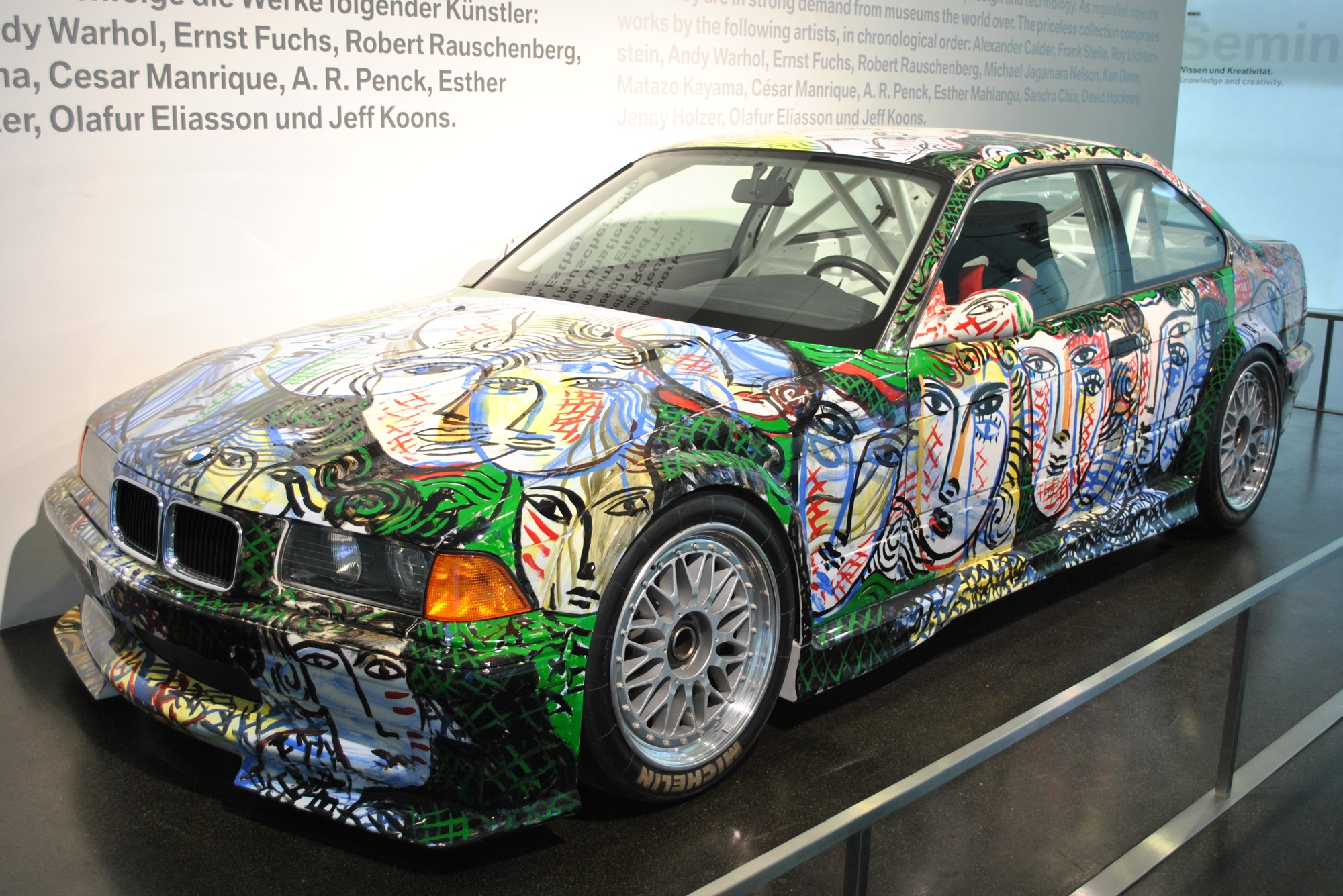 BMW Art Car (BMW M3 GTR) designed by Sandro Chia at BMW Museum Munich